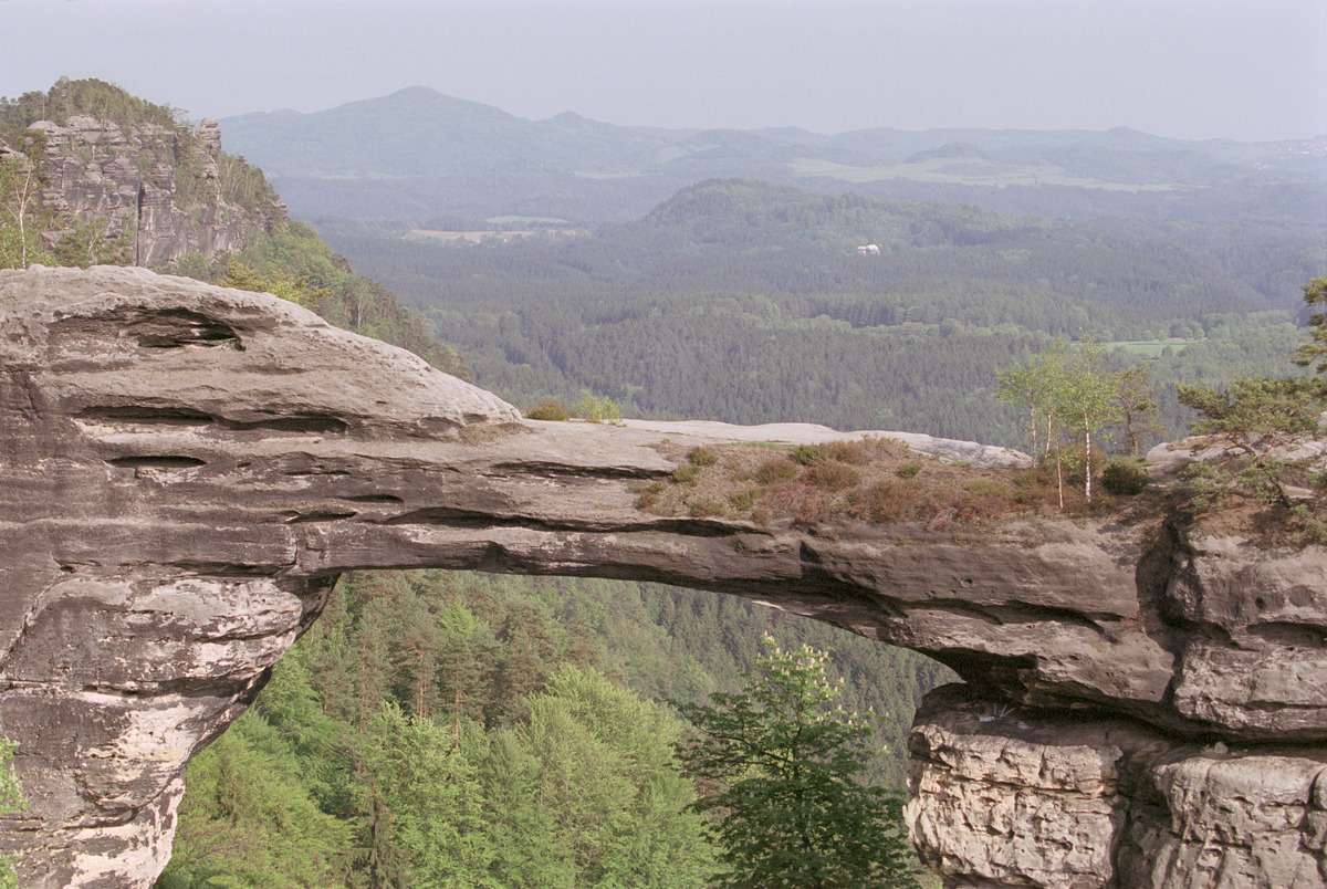 Pravčická brána (german language: Prebischtor) in the Czech Republic there is a smaller and a big one, this is the big one picture taken by me in spring 2004